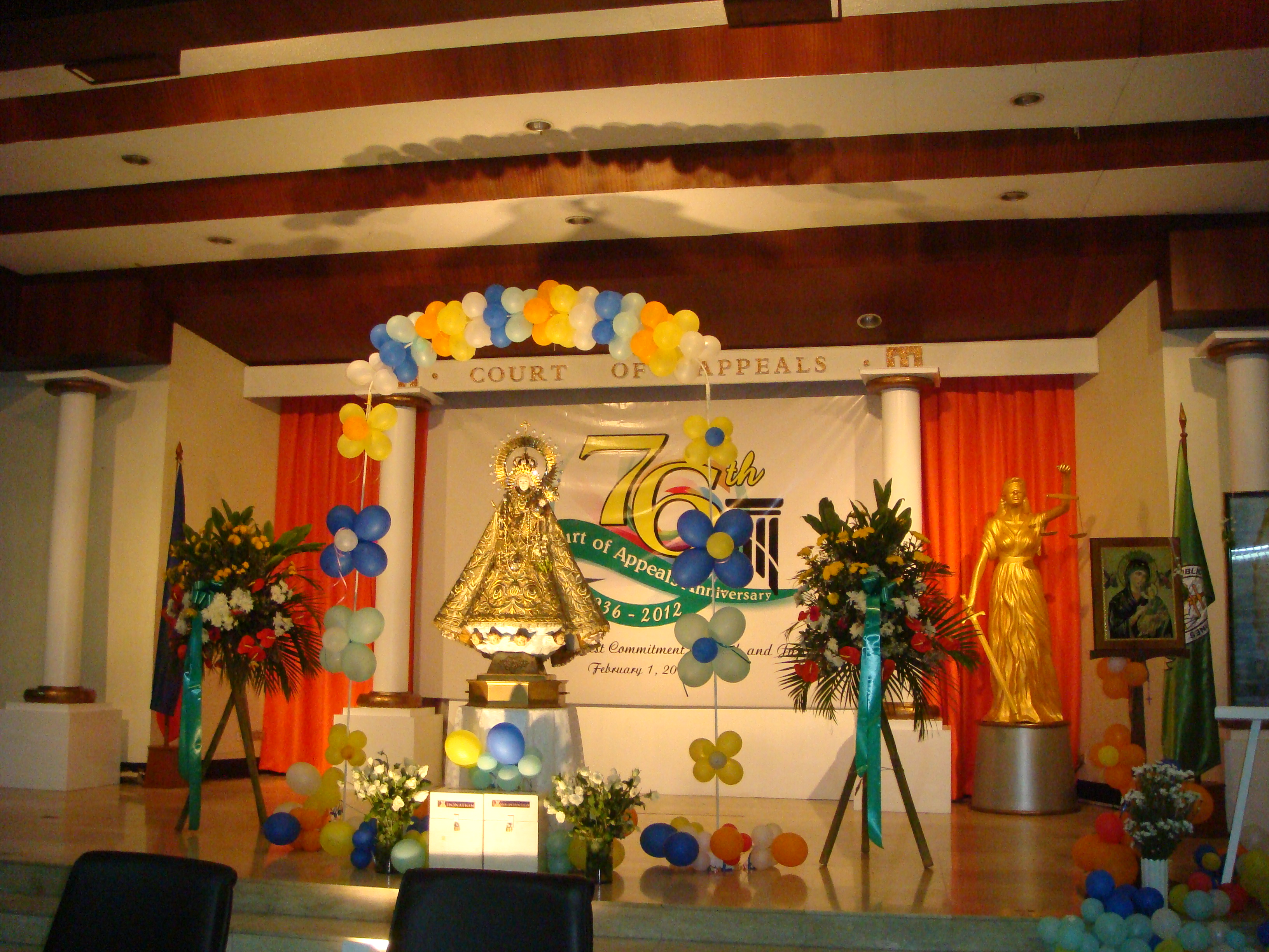 Our Lady of the Most Holy Rosary of La Naval de Manila (Spanish: Nuestra Señora del Santíssimo Rosario de La Naval de Manila), colloquially known as Santo Rosario or Our Lady of La Naval de Manila, at the Court of Appeals of the Philippines.